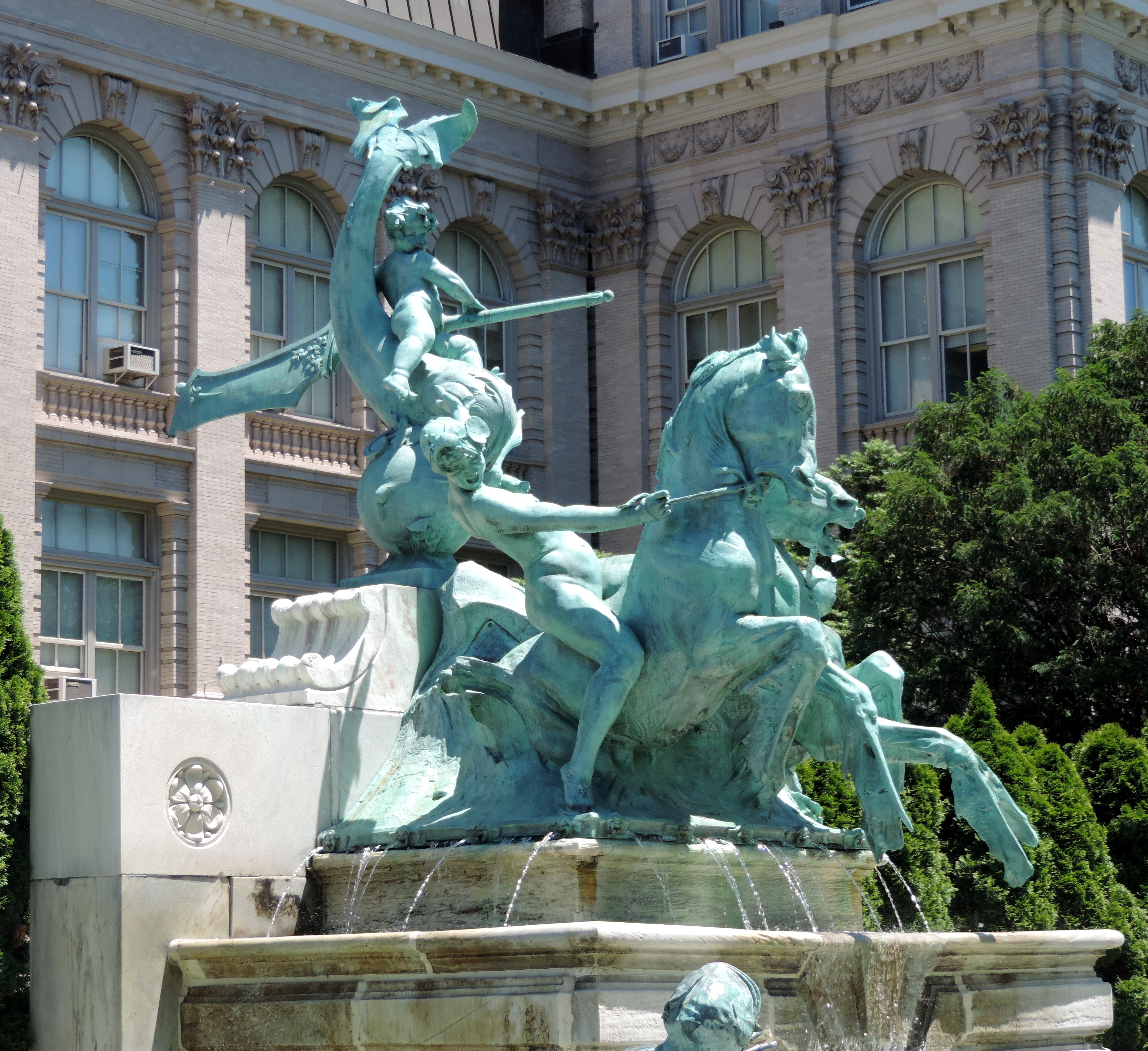 Looking east at Botanical fountain on a sunny midday.